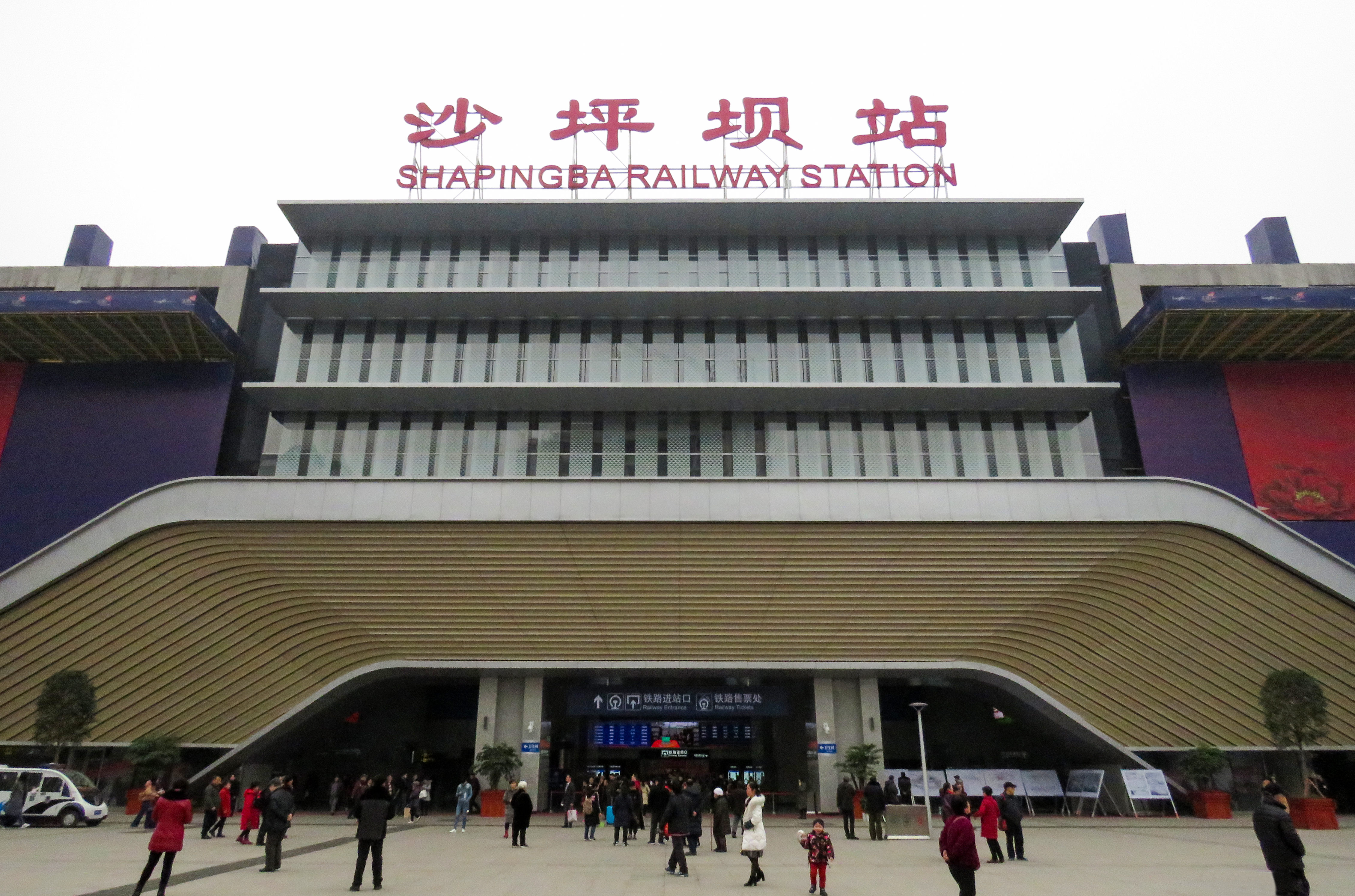 We can still call it "sand pit" for the existence of a pit on the north!